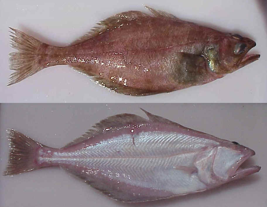 Arrowtooth flounder (Atheresthes stomias), dorsal view (top), ventral view (bottom).